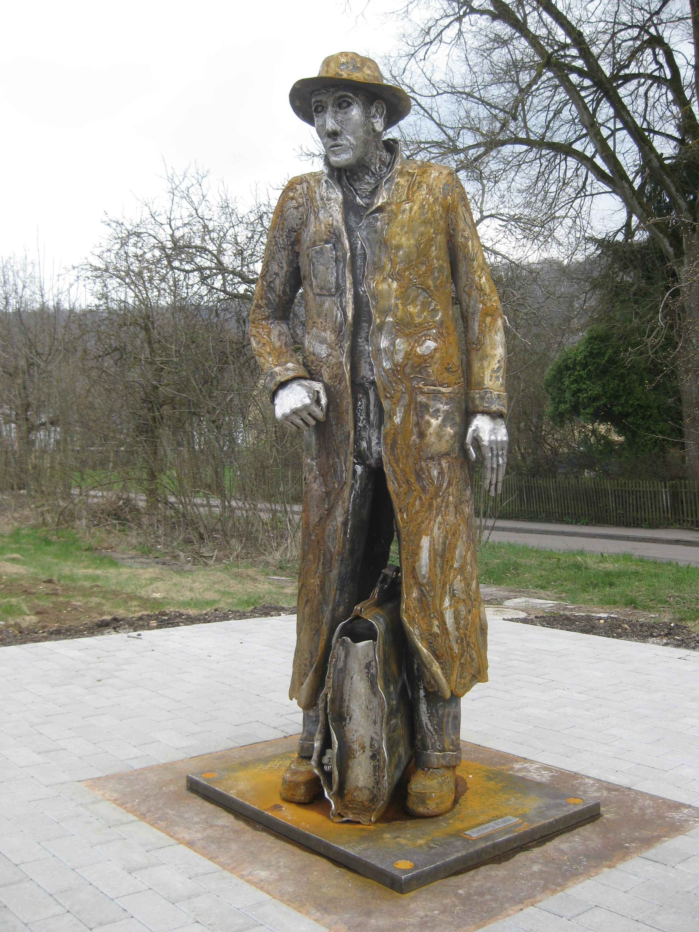 Georg Elser Monument in Königsbronn, Germany, where he had lived.